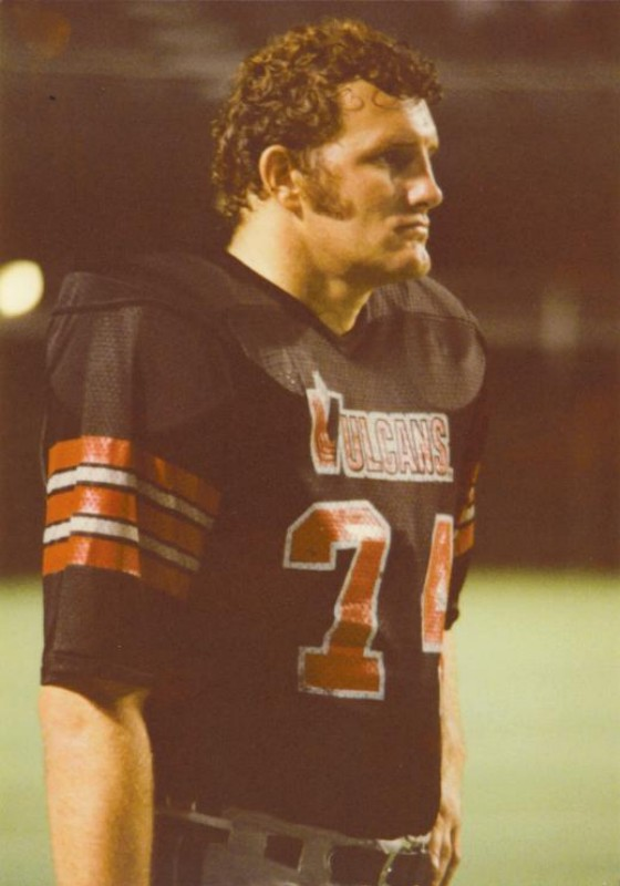 Wimpy Winther on the sidelines of a Alabama Vulcan's game.